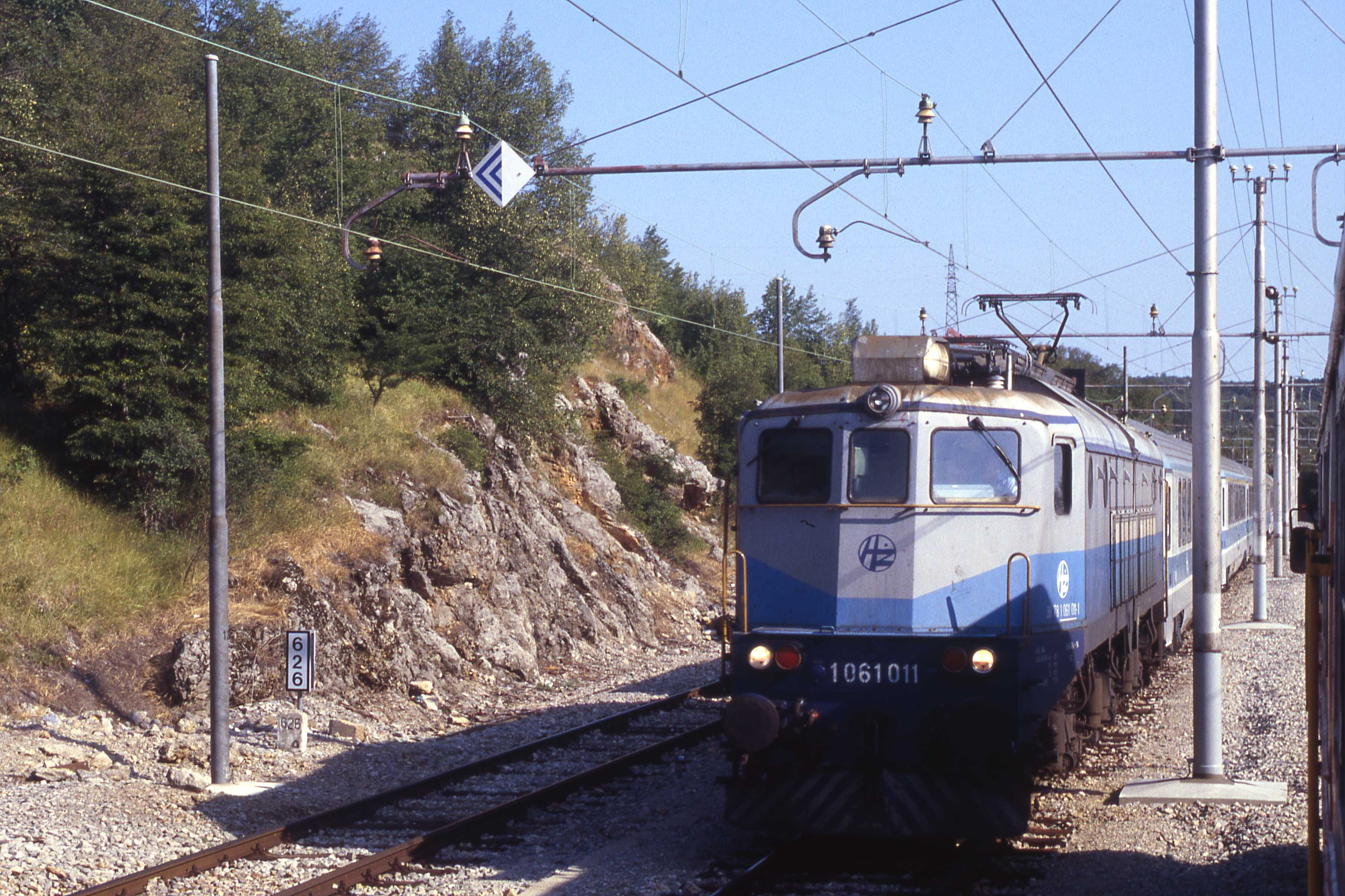 Passenger IC train on the Rijeka - Oštarije railway.